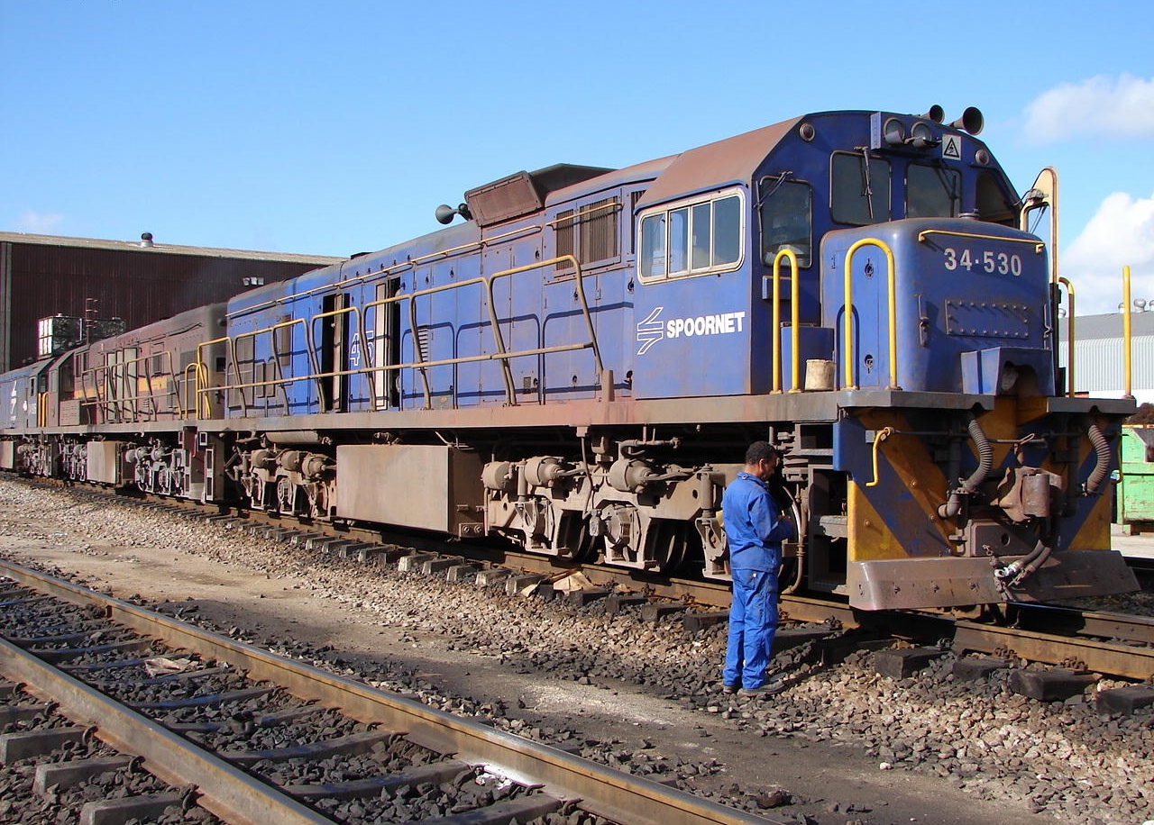 South African Class 34-500 (aka 34-400 ex Iscor) 34-530 Builder's Number: GE 40409 Type: GE U26C Location: Saldanha, Western Cape Renumbering: Originally owned by Iscor and renumbered from Iscor 30D upon transfer to the South African Railways.